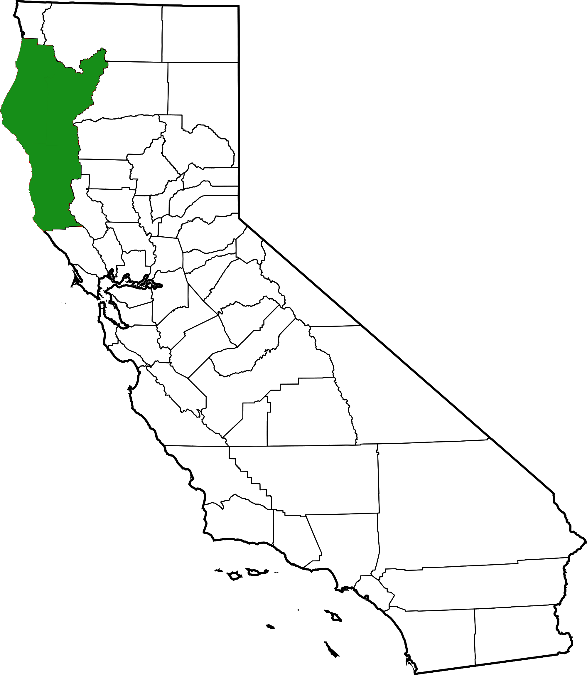 The Emerald Triangle in Northern California is a cannabis growing region comprising Humboldt County, Mendocino County, and Trinity County.